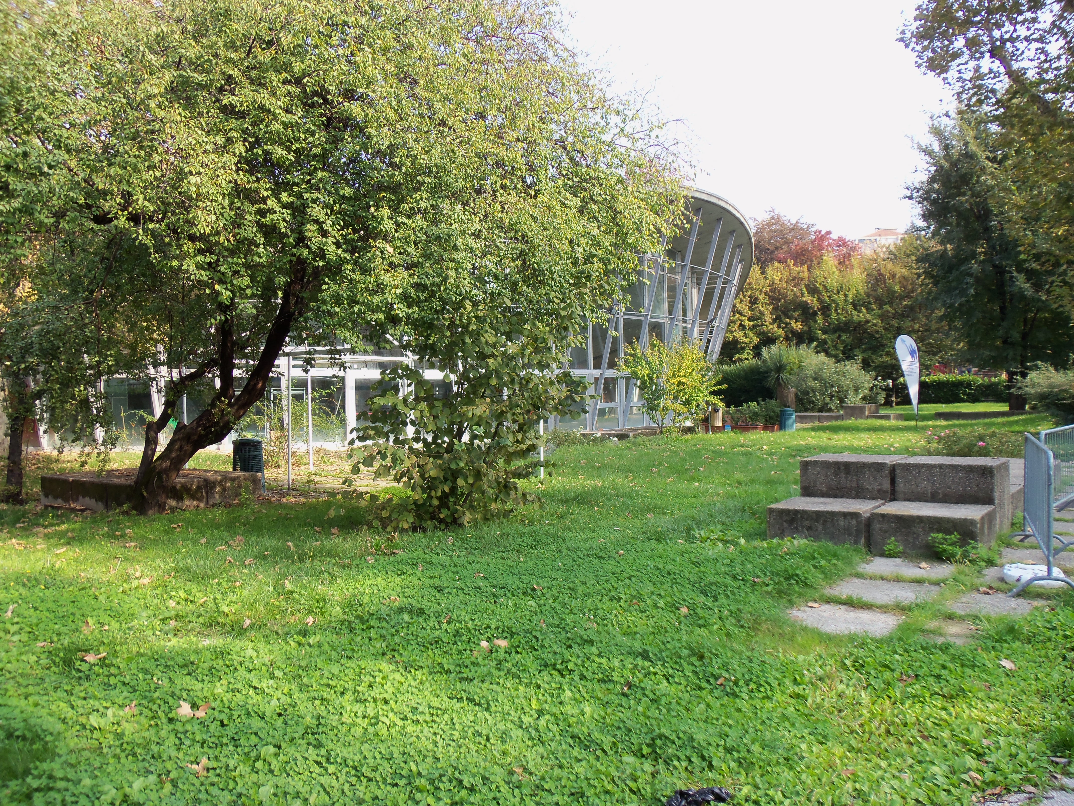 Milan, parco Solari (now don Giussani). the swimmingpool.